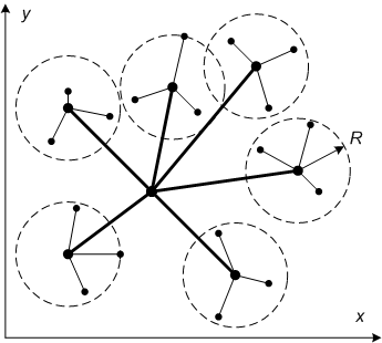 Artificial bee colony optimization strategy